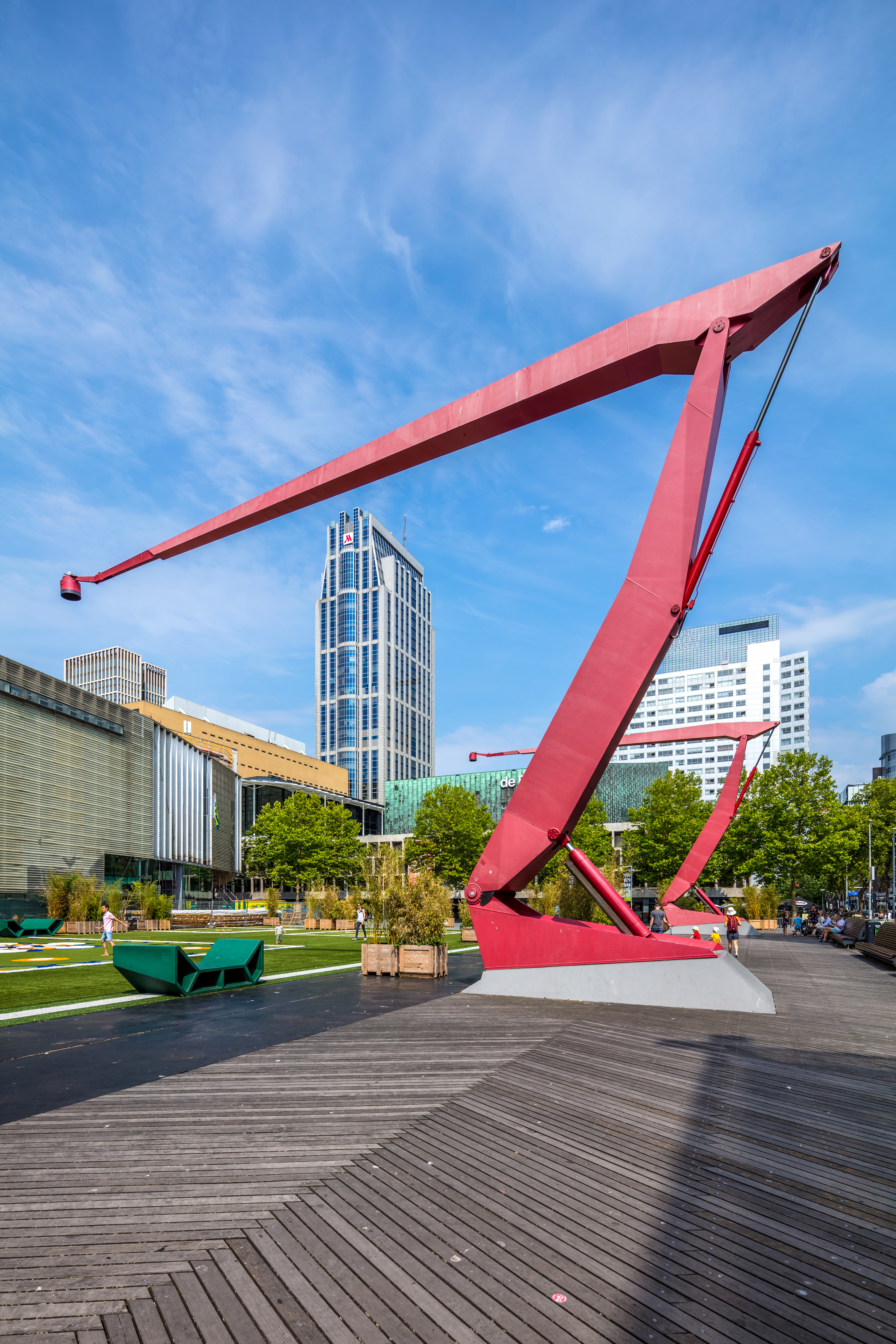 Theatre Square "Schouwburgplein", Rotterdam (07/2018) - Human picture: (1 body / 1 lens / 1 human = 1 picture ) 0% AI ... ;- ) ... Following vandalization (Rotterdam) of my work, final stop of this series on European cities. My work not being respected, I definitively stop my publications in Wikimedia Commons (including definition and quality updates). Final publication in Wikimedia Commons: I also stop my GraphyArchyPocket series (before vandalization ...). Final publication in Wikimedia Commons